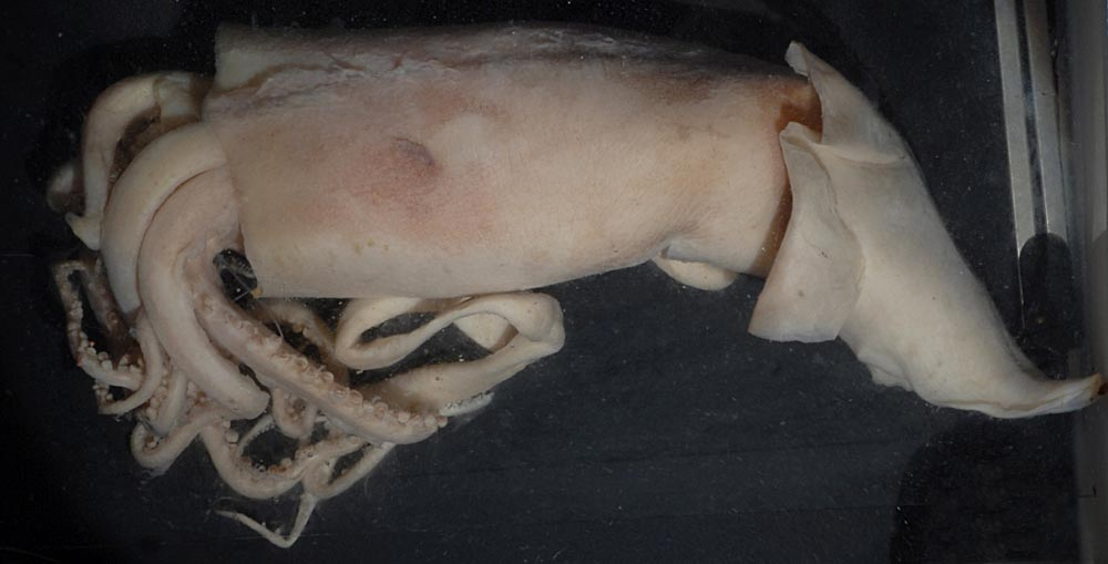 Onykia sp. A (nearly mature female, 272 mm ML, taken by Anela Choy from stomach of swordfish)